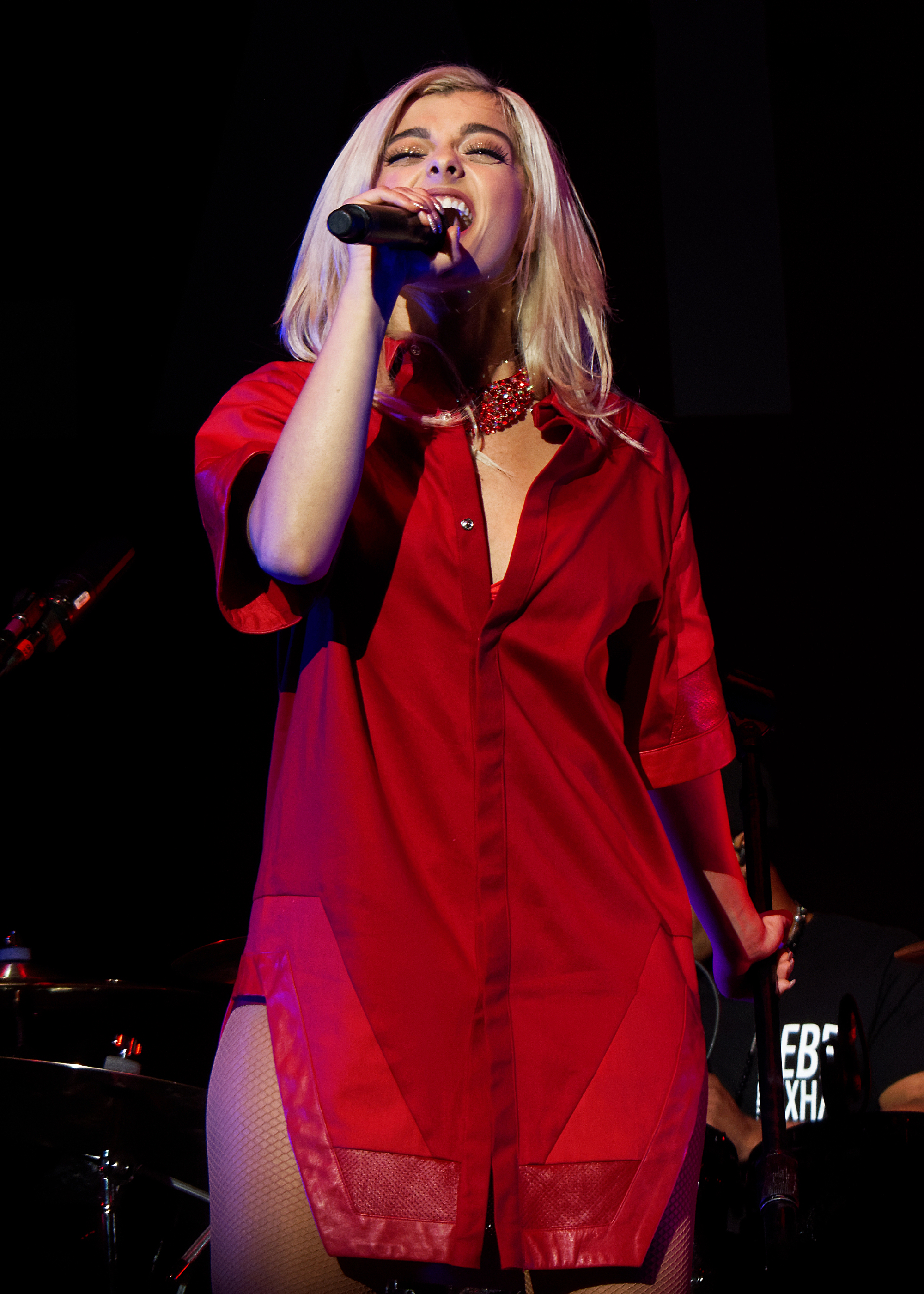 Bebe Rexha performing live at Staples Center in downtown Los Angeles, California on Friday April 8th, 2016. Bebe opened for Ellie Goulding on her Delirium World Tour.